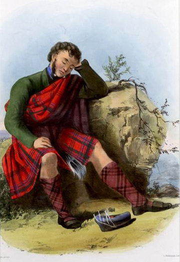 "Munro". A plate illustrated by R. R. McIan, from James Logan's The Clans of the Scottish Highlands, published in 1845.